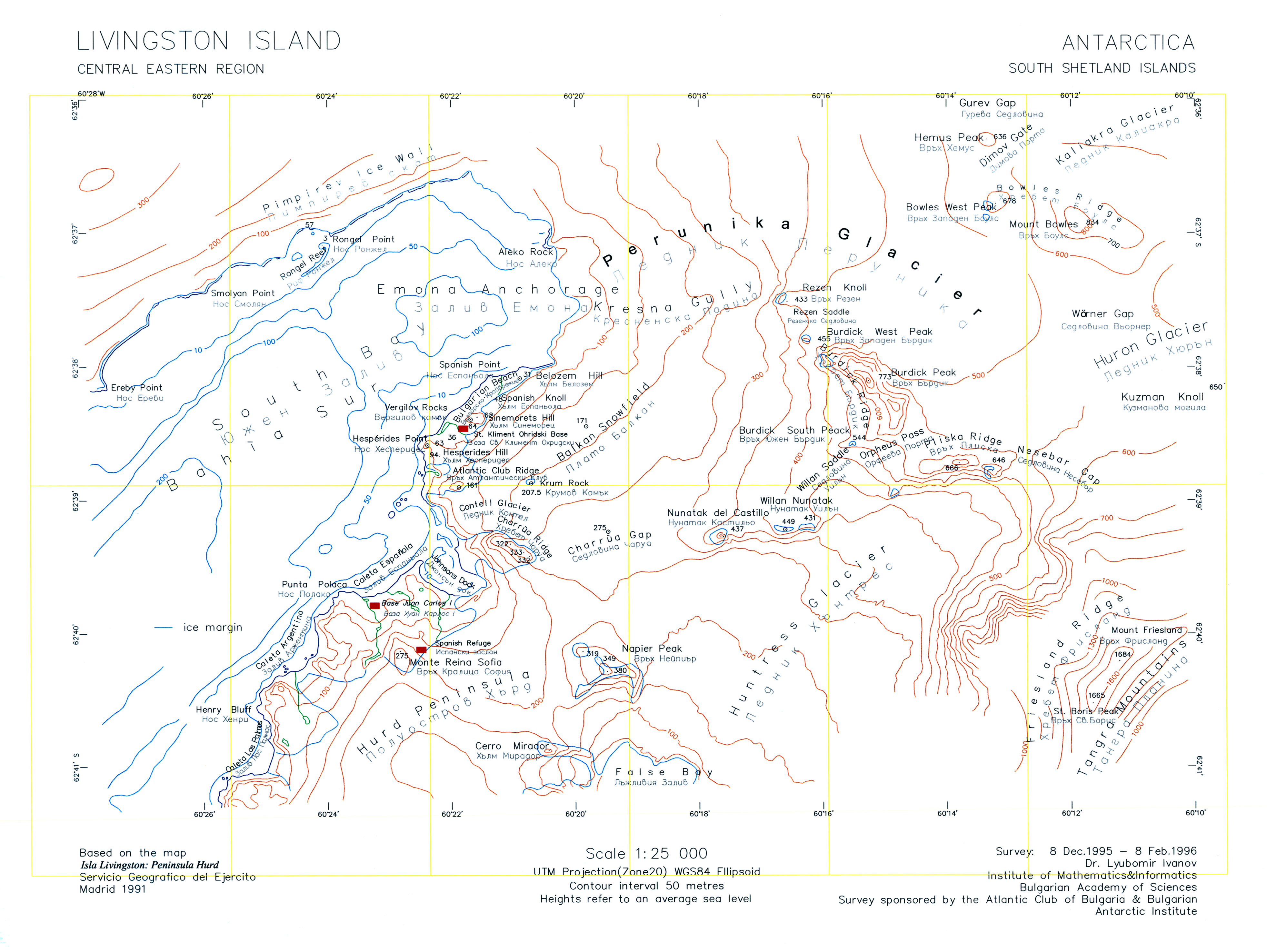 A version of the original 1996 map "L.L. Ivanov. Livingston Island: Central-Eastern Region. Scale 1:25000 topographic map. Sofia: Antarctic Place-names Commission of Bulgaria, 1996." uploaded by the author of that map who is also the CEO of the Antarctic Place-names Commission.